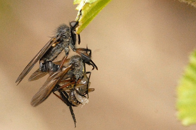 Empis borealis from Commanster, Belgian High Ardennes .